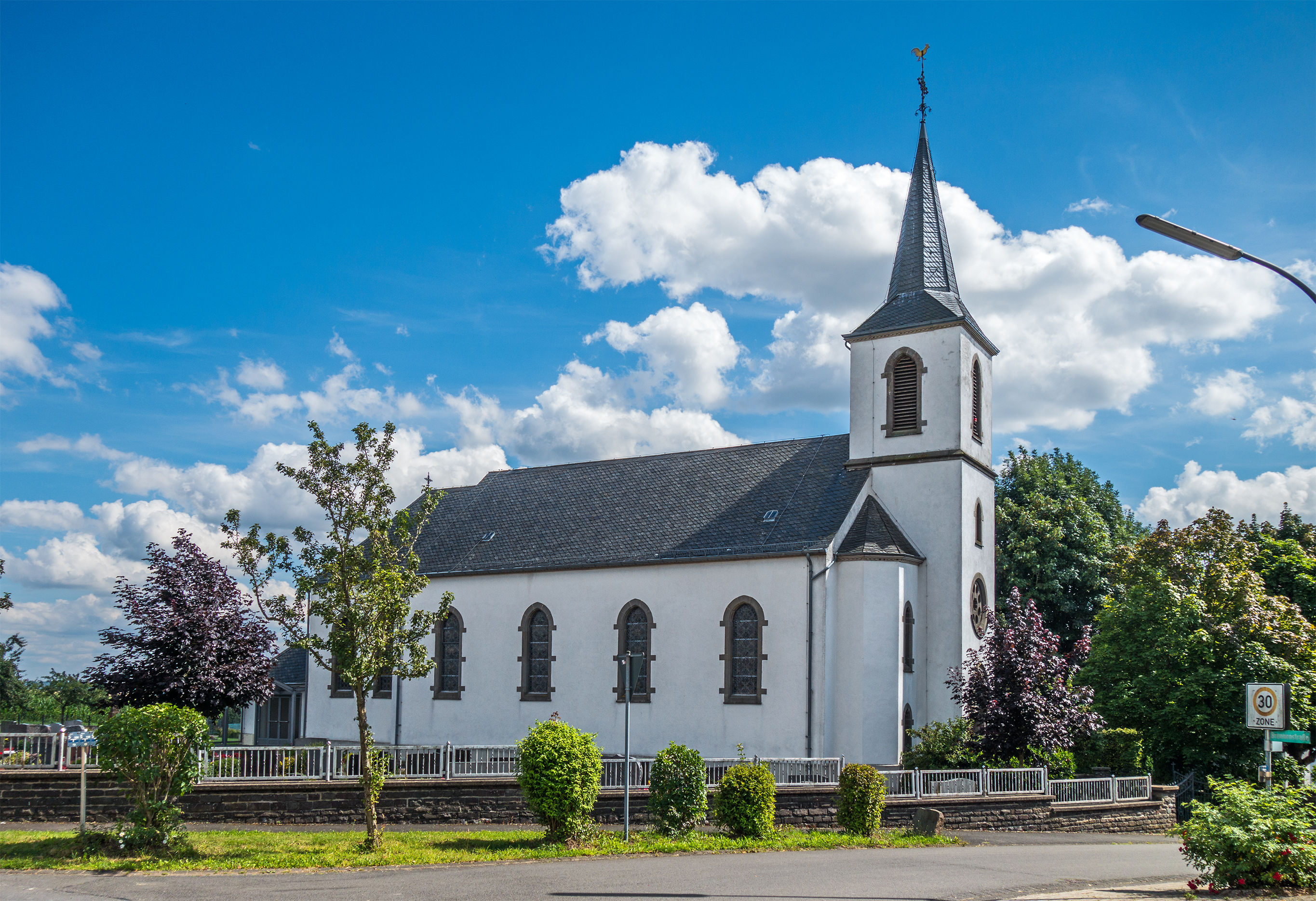 Church of Ammeldingen (Neuerburg)